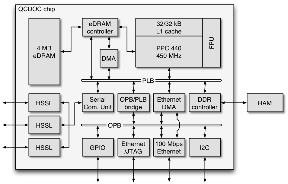 The chip schema for the QCDOC supercomputer